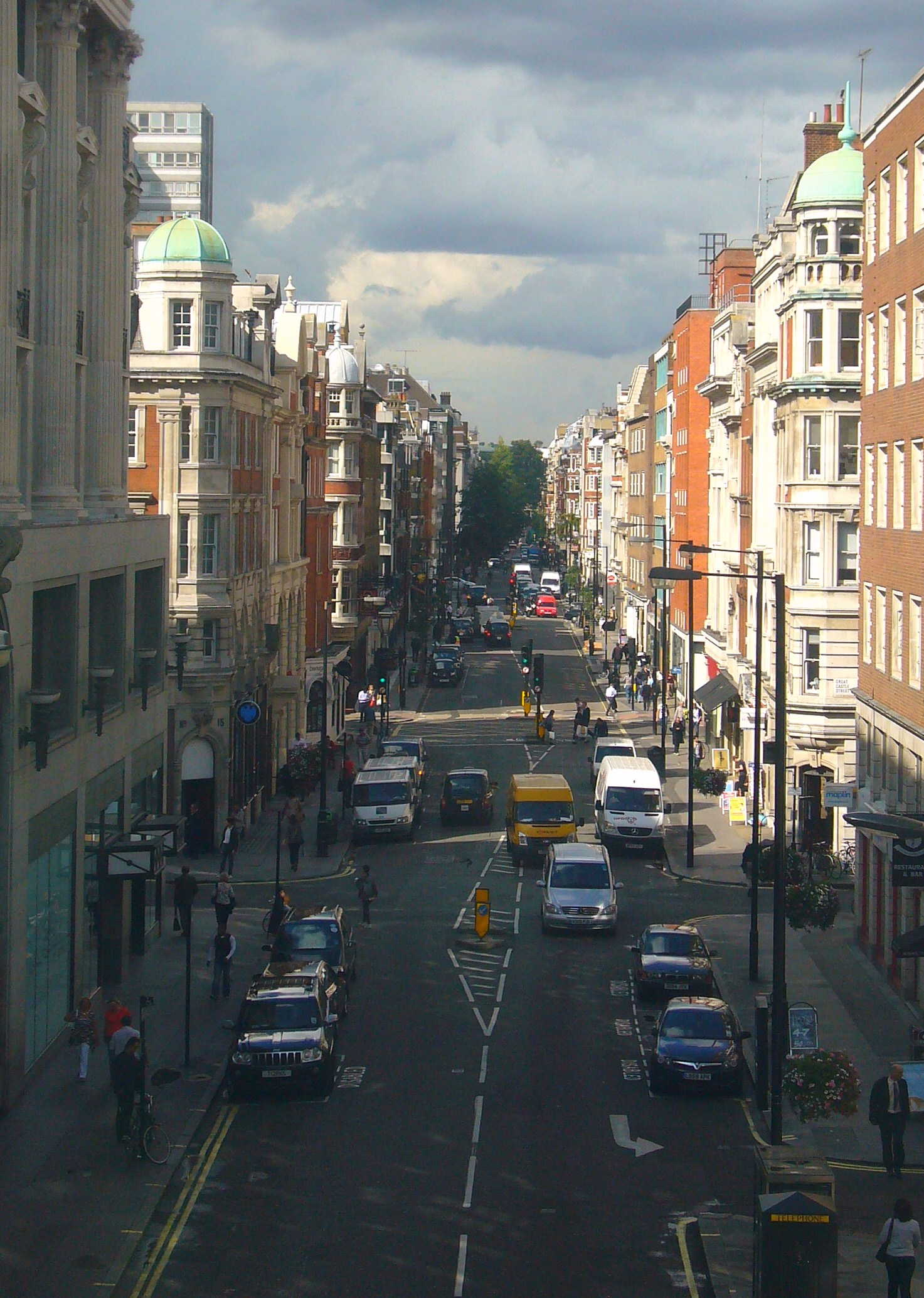 View from Oxford Street at the south end of Great Portland Street.